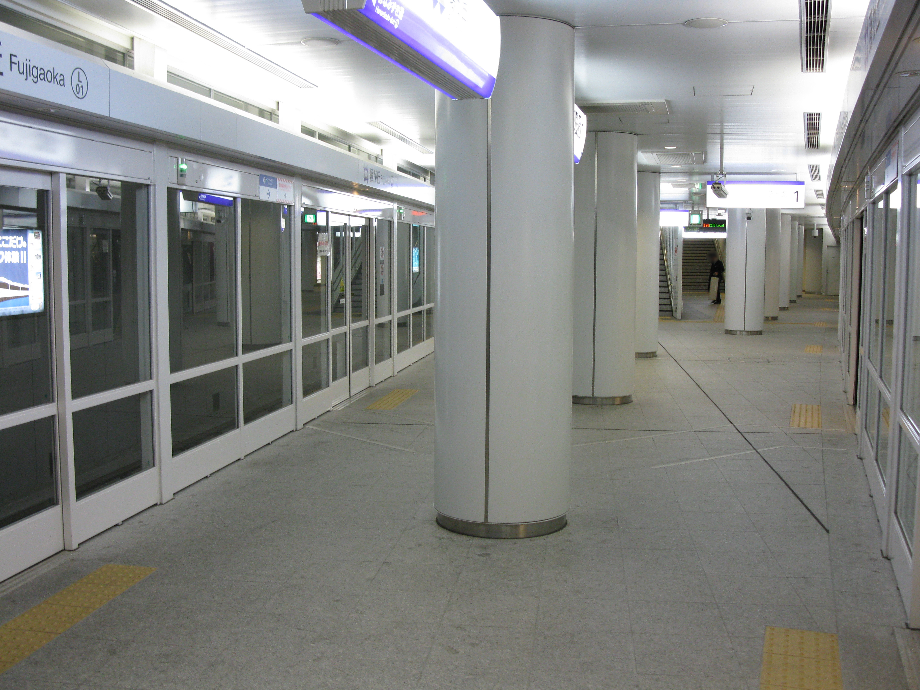 The platform at Fujigaoka Station(Linimo, Aichi Rapid Transit)